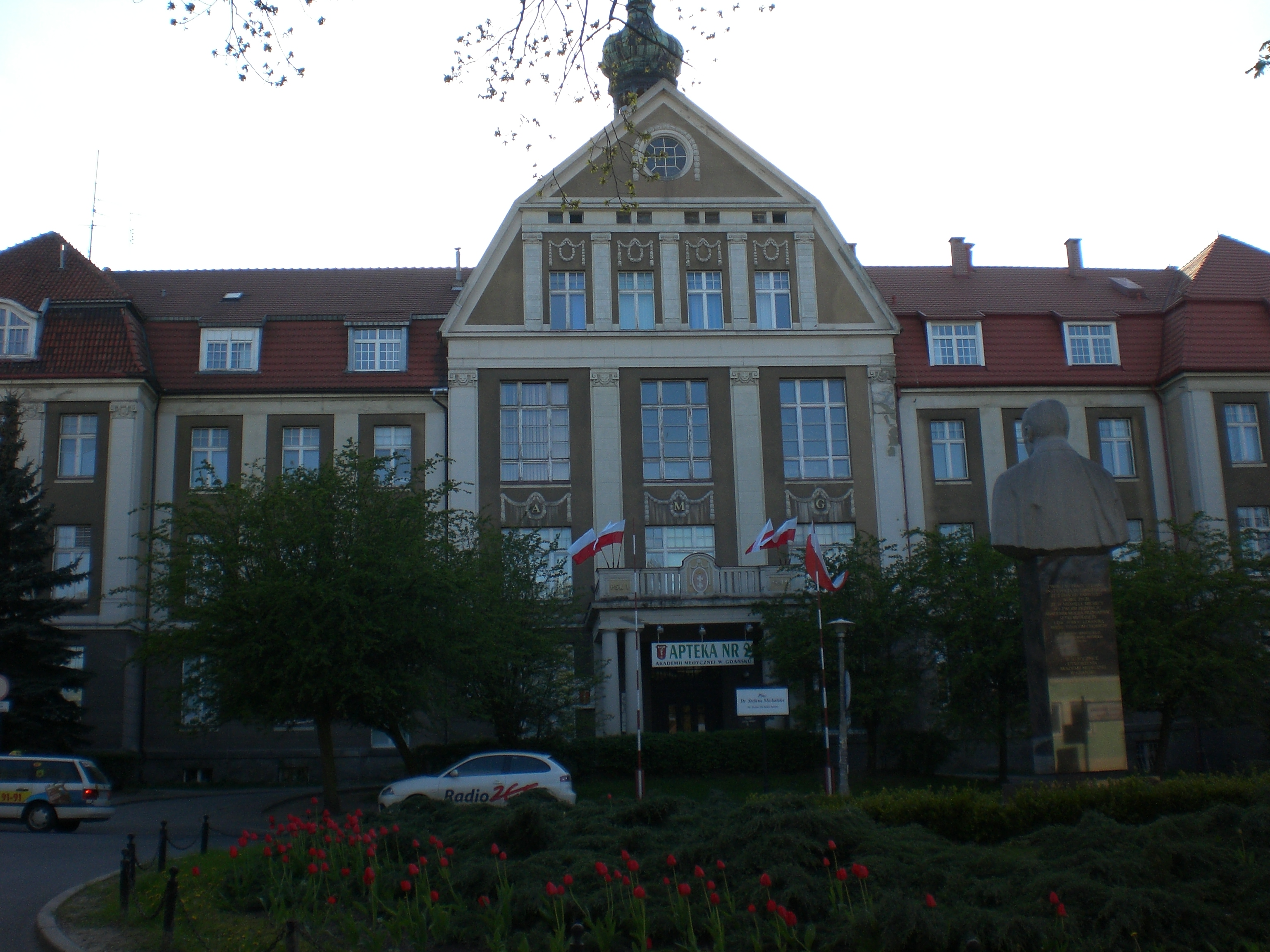 Gdańsk Medical University